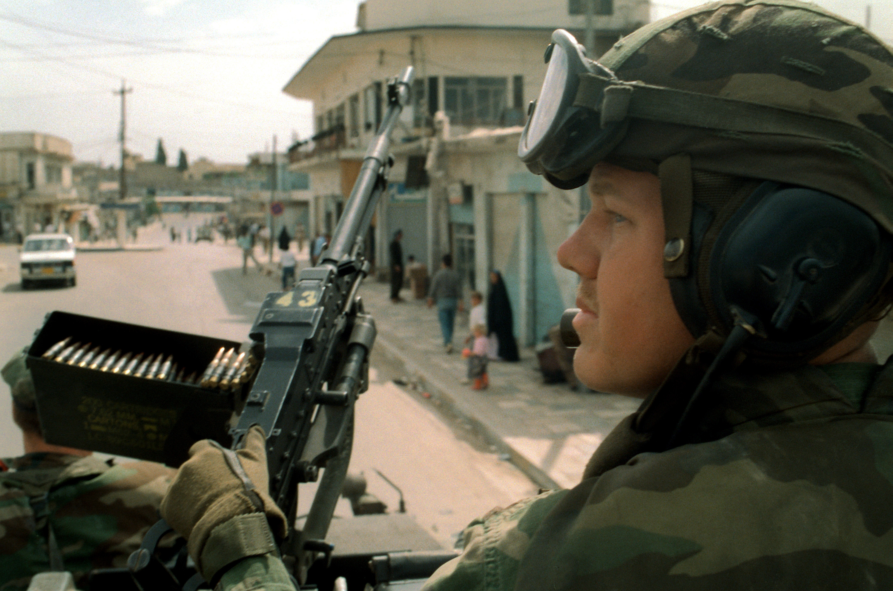 A Marine aboard an LAV-25 light armored vehicle holds onto the L7A2 machine gun mounted on the vehicle's turret while on patrol in the city. Marines are in Zakhu as part of Operation Provide Comfort, multinational effort to aid Kurdish refugees in southern Turkey and northern Iraq.